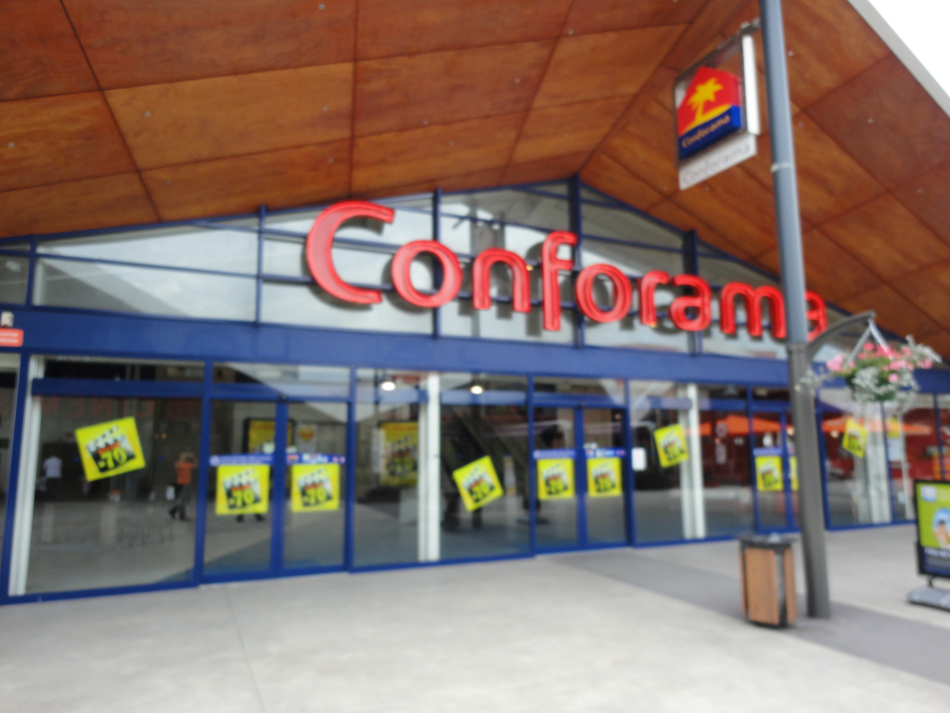 Conforama, furnitures shop at Torcy in Bay 1 mall